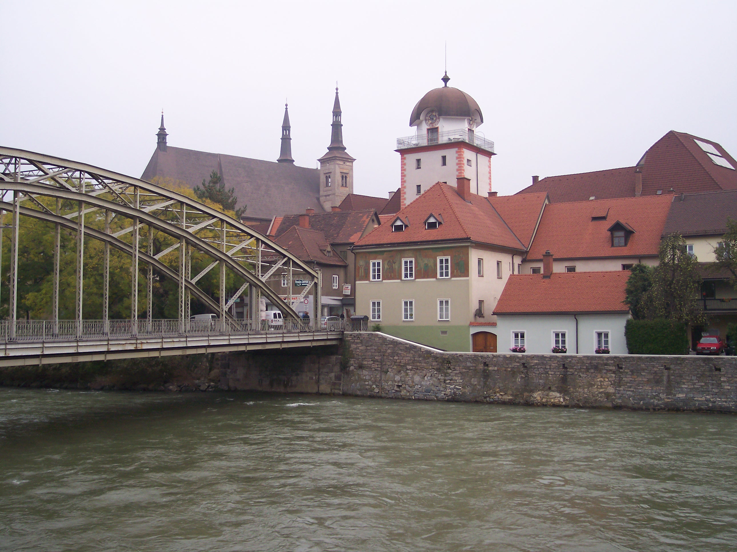 The toll tower (1280) and the church of Holy Xaver (1660-1665) in Leoben.